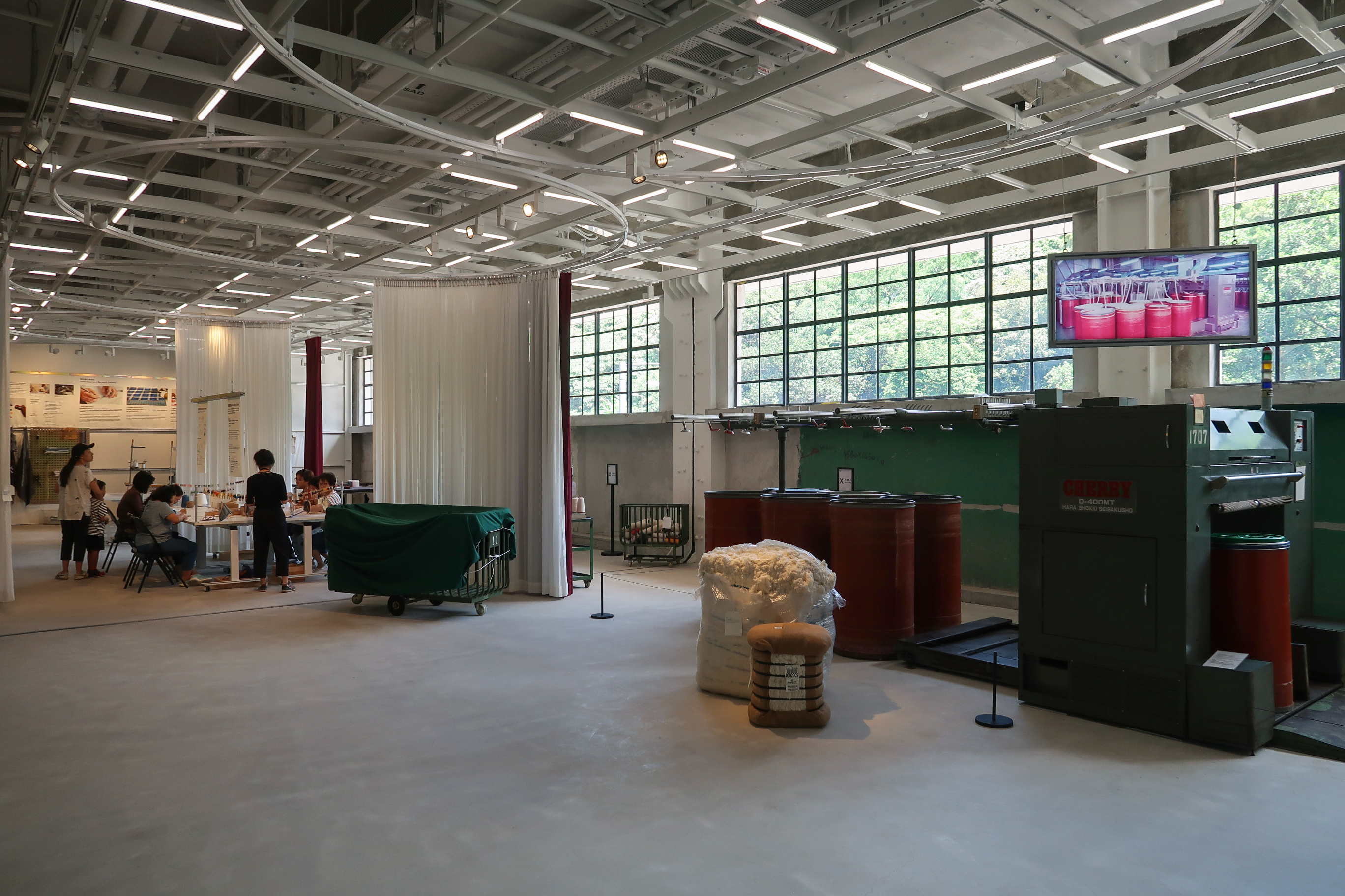 The Mills CHAT Level 2 The D.H. Chen Foundation Gallery